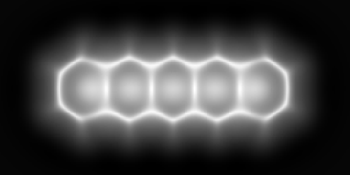 A simulation done using probe particle model of CO-terminated frequency-modulation atomic force microscopy.